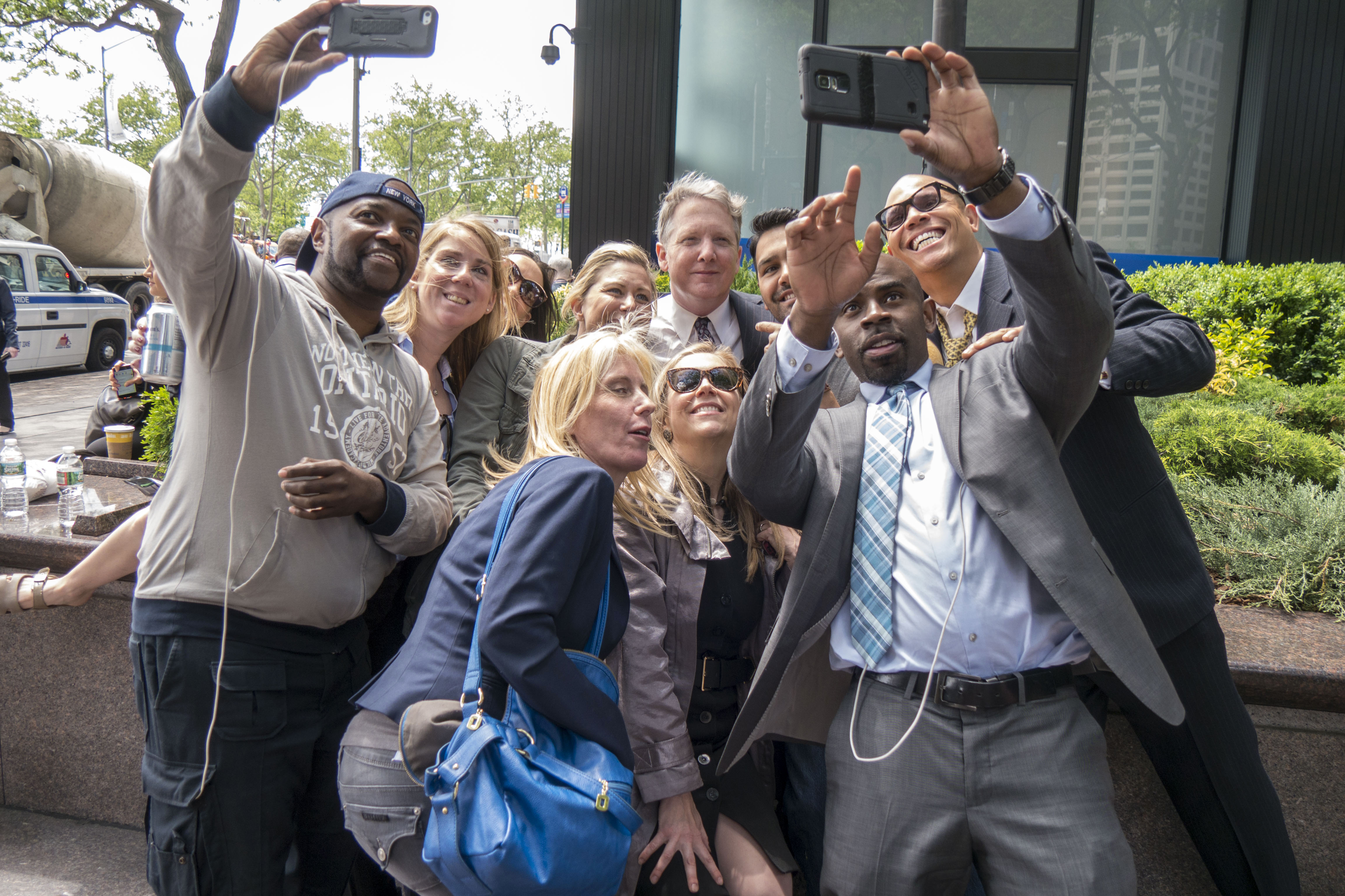 A group of actors on the set of "The Big Short' to be released in 2016 and starring Brad Pitt.